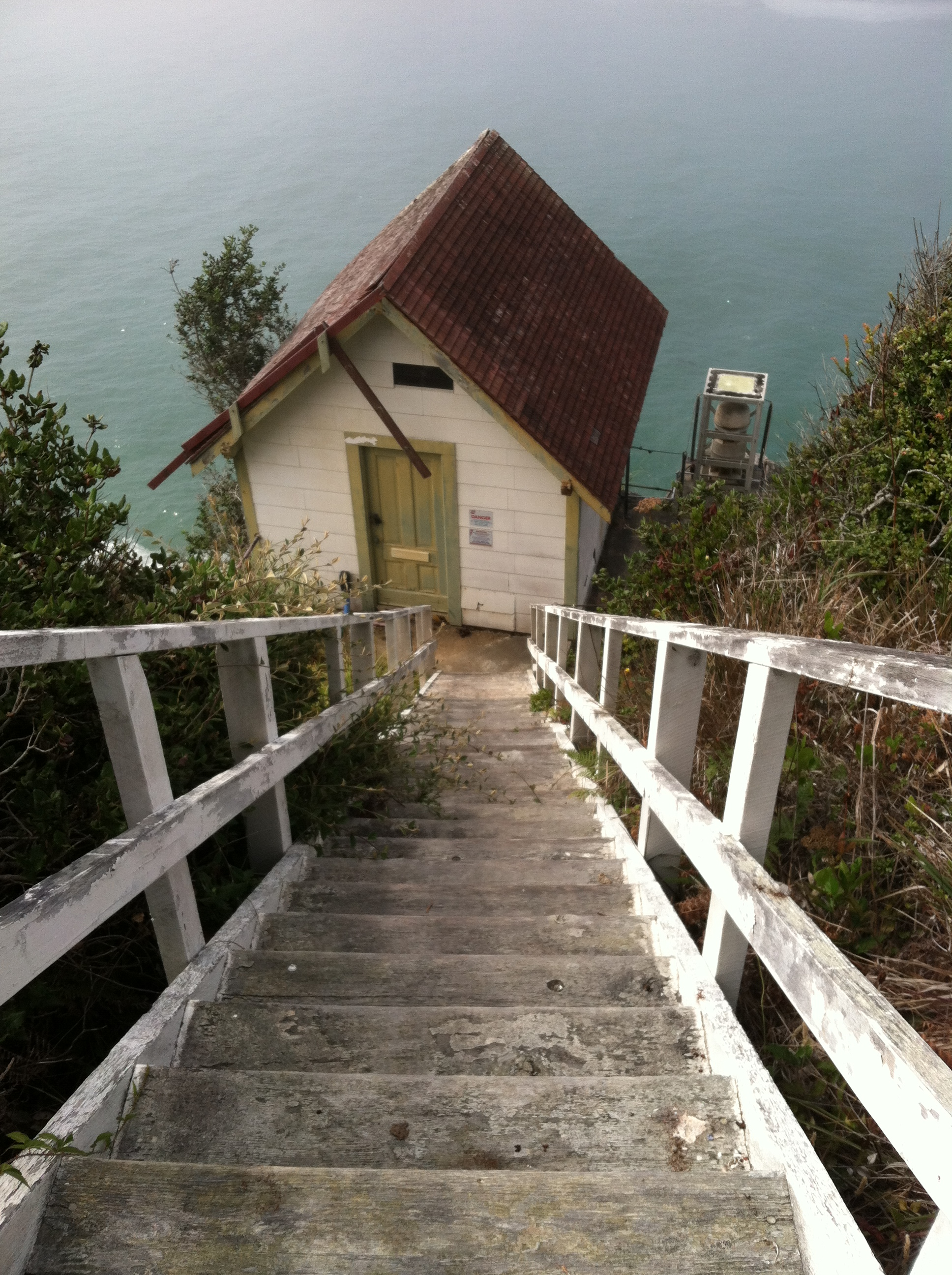 image of steps going down to the historic bell house, the current location of the fog signal